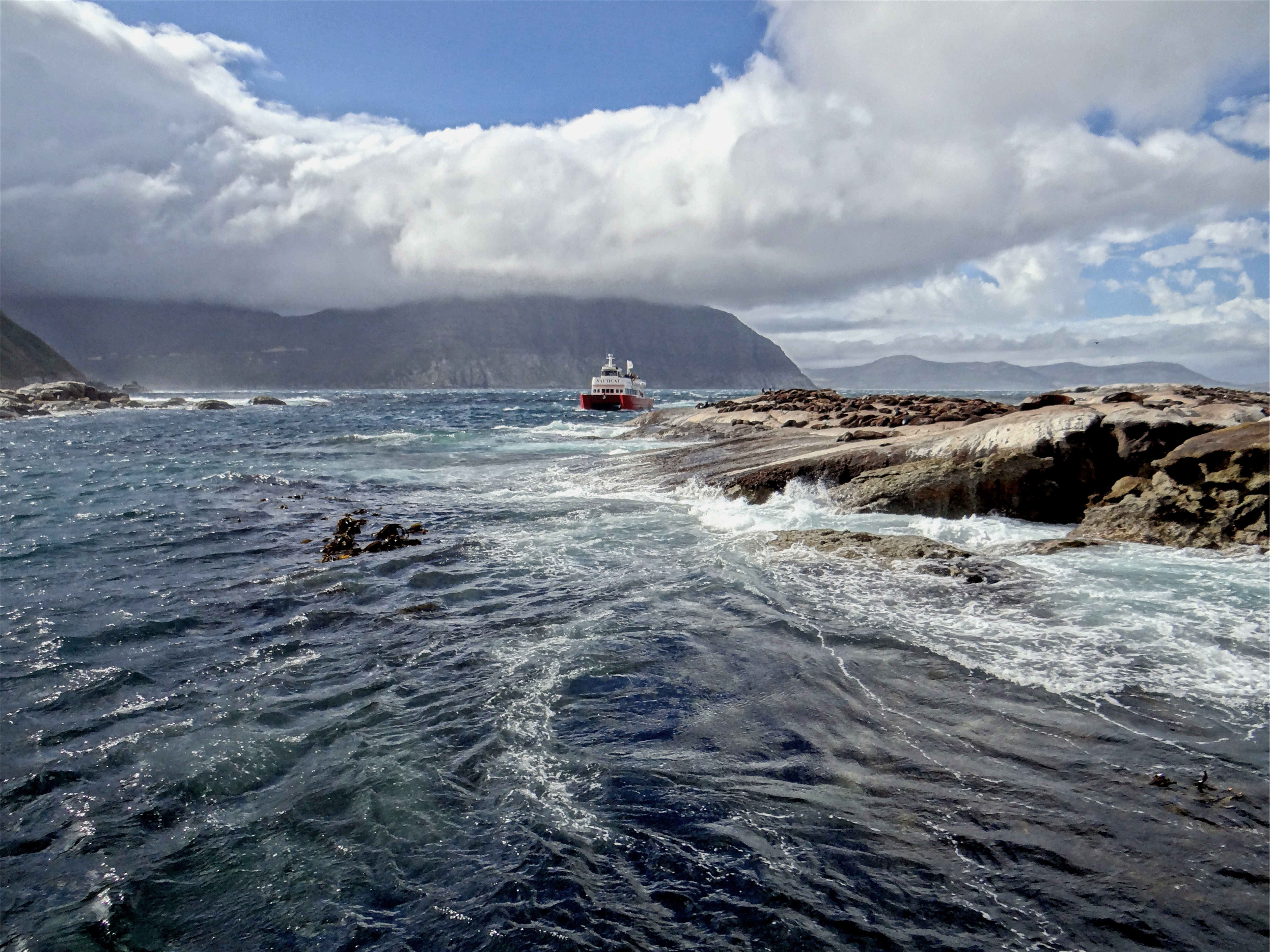 Tourist boat to approach Duiker Island, Cape Town area, South Africa